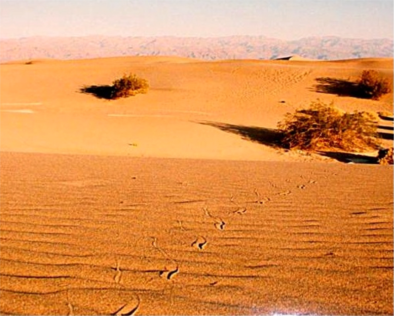 The tracks of a Sidewinder rattlesnake (Crotalus cerastes) — on a sand dune in Death Valley. Within Death Valley National Park, in the Mojave Desert, California. Credits Photograped by Brocken Inaglory